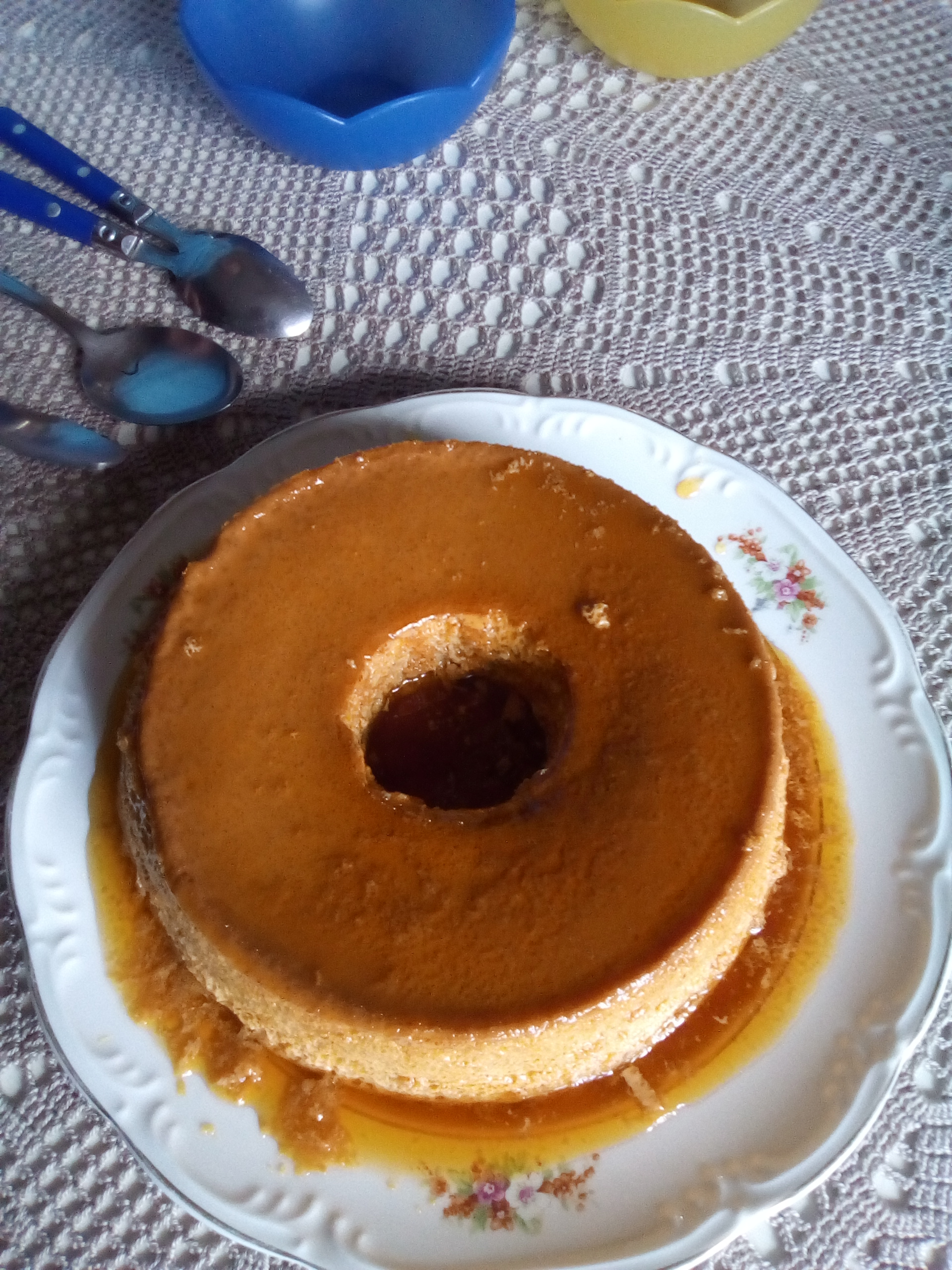 A large homemade milk pudding, common in the South region of Brazil